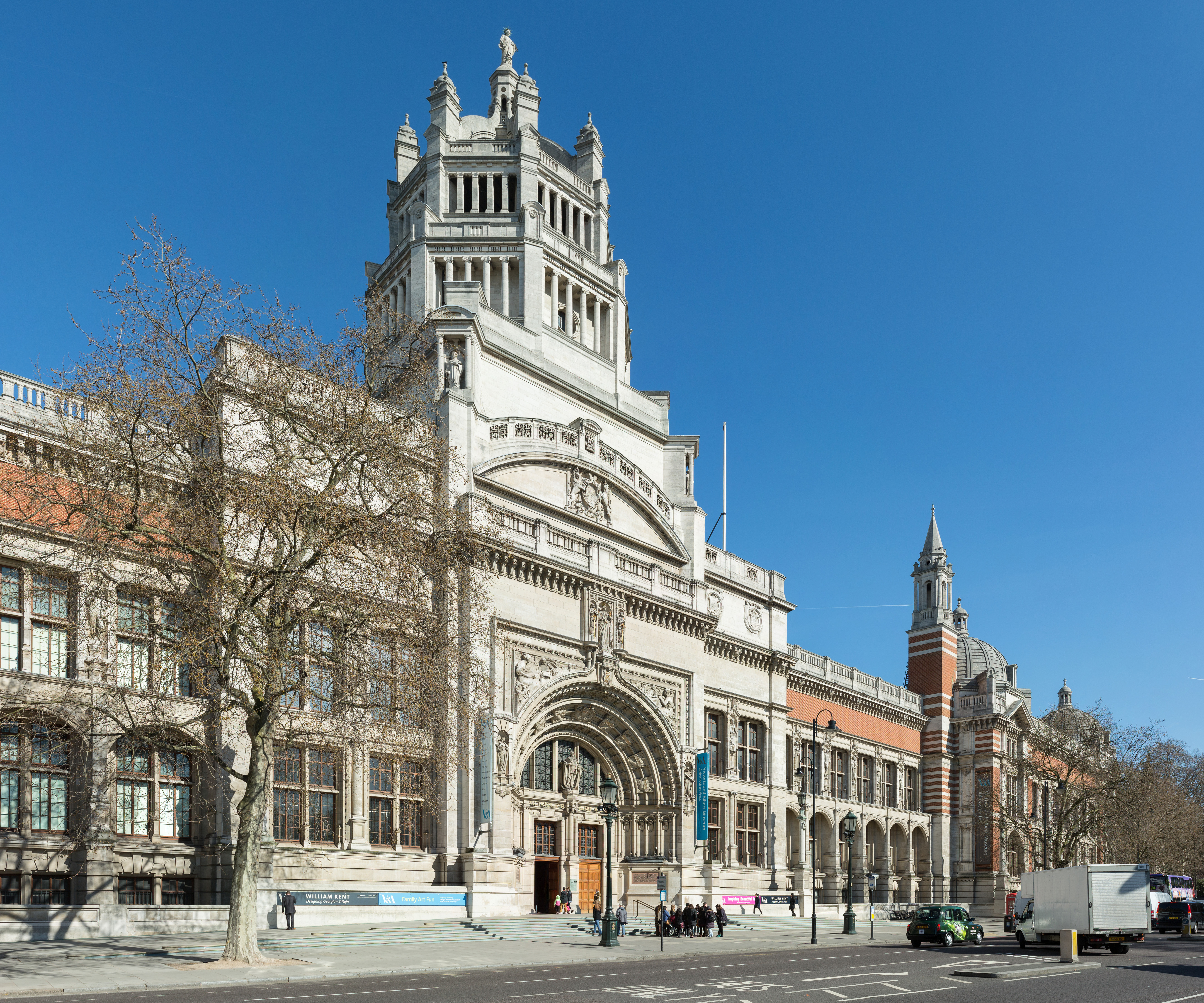 The southern entrance of the Victoria and Albert Museum in London, England.